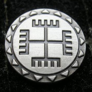 "Hands of God", symbol of the early ethnic religions of the Slavs and Vandals.